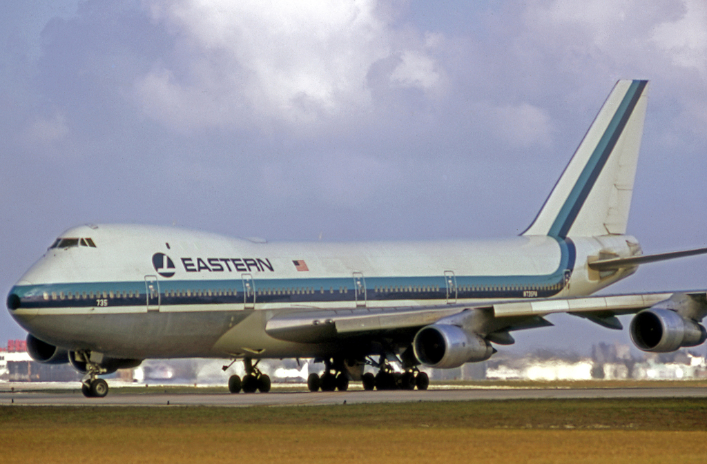 Boeing 747-121 of Eastern Airlines at Miami in 1971 (leased from Pan American)